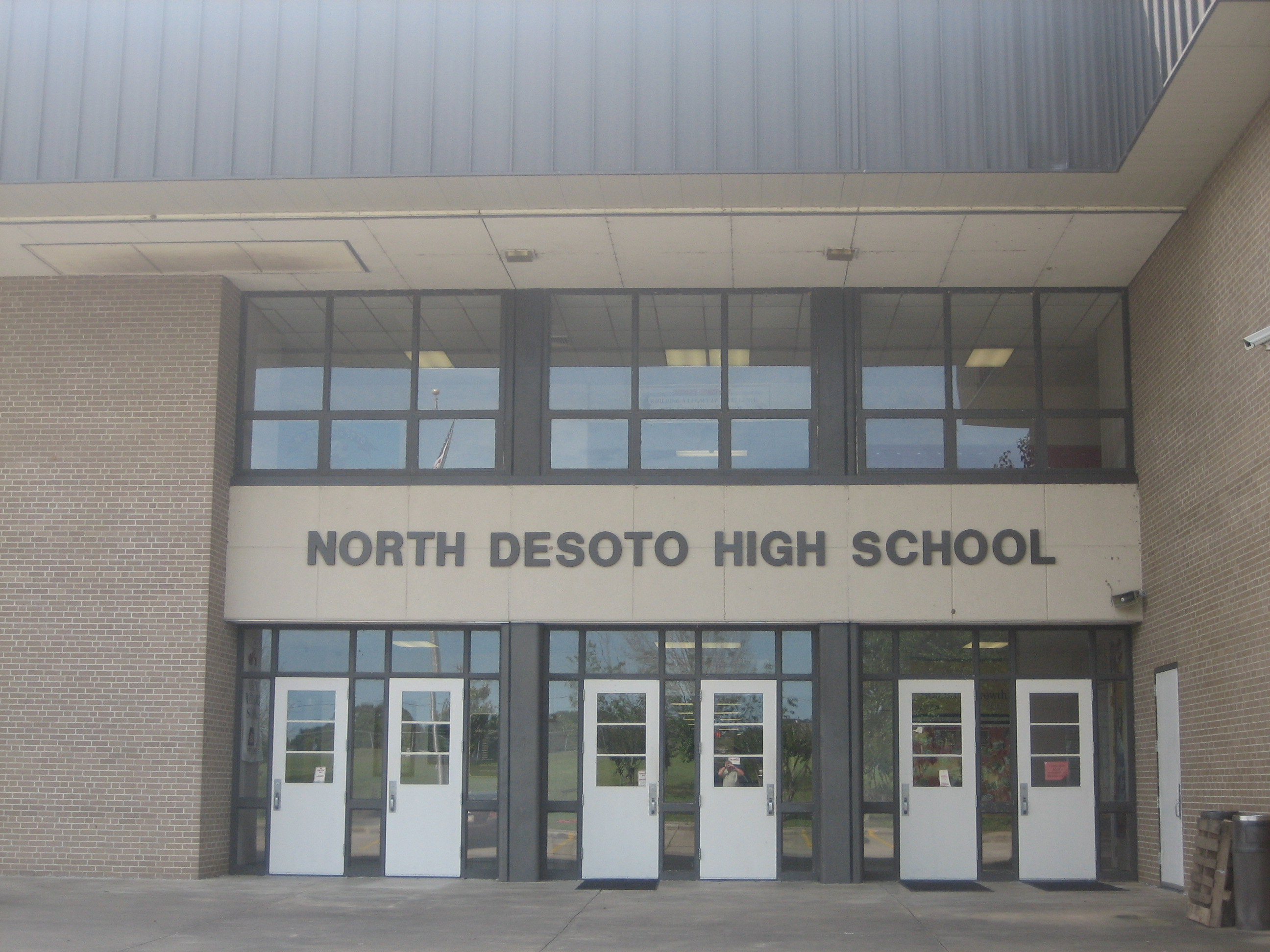 I took photo on May 27, 2009.Billy Hathorn (talk) 15:13, 31 May 2009 (UTC)